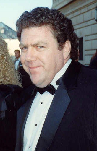 George Wendt taken at the 41st Emmy Awards 9/17/89